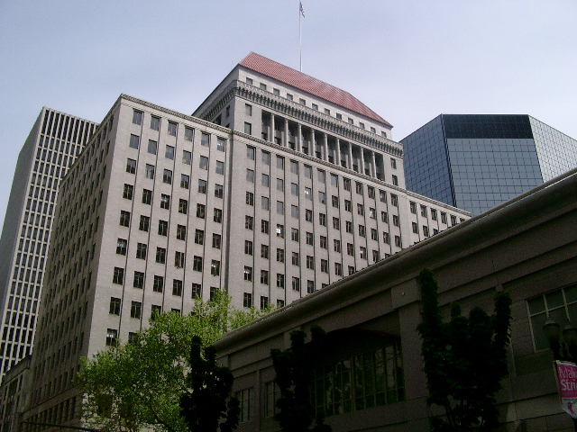 The crown of the Public Service Building in Portland, Oregon. Photo taken by myself, Ajbenj.